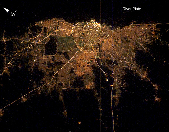 Buenos Aires at night